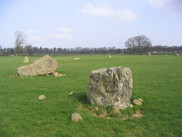 Twelve Apostles Stone Circle In a field to the north of Newbridge and difficult to get all the stones in one photograph, other than a join-up image. With a maximum diameter of 88m, this is the largest circle in Scotland and the seventh biggest in Britain. Until 1837 there were twelve stones out of a probable eighteen, but now only eleven survive. ( and